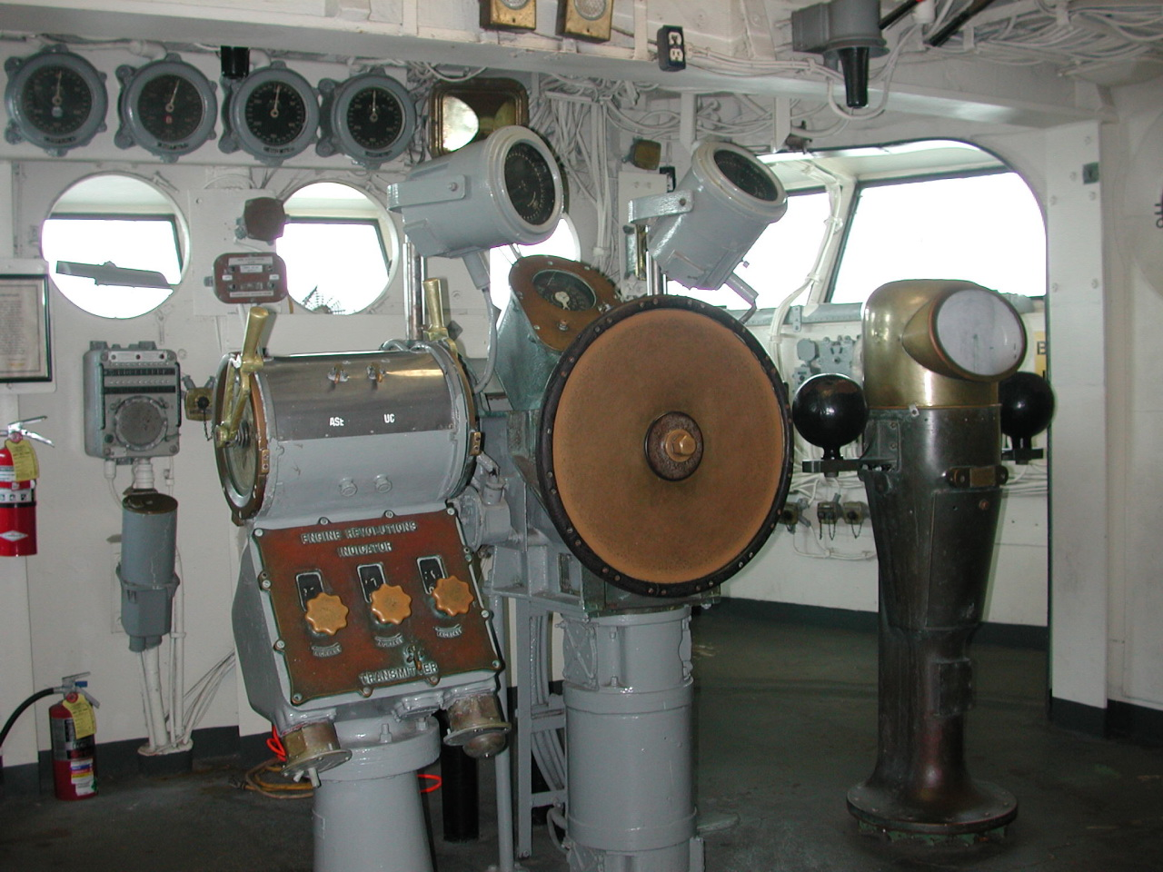 On the Bridge - At the Helm